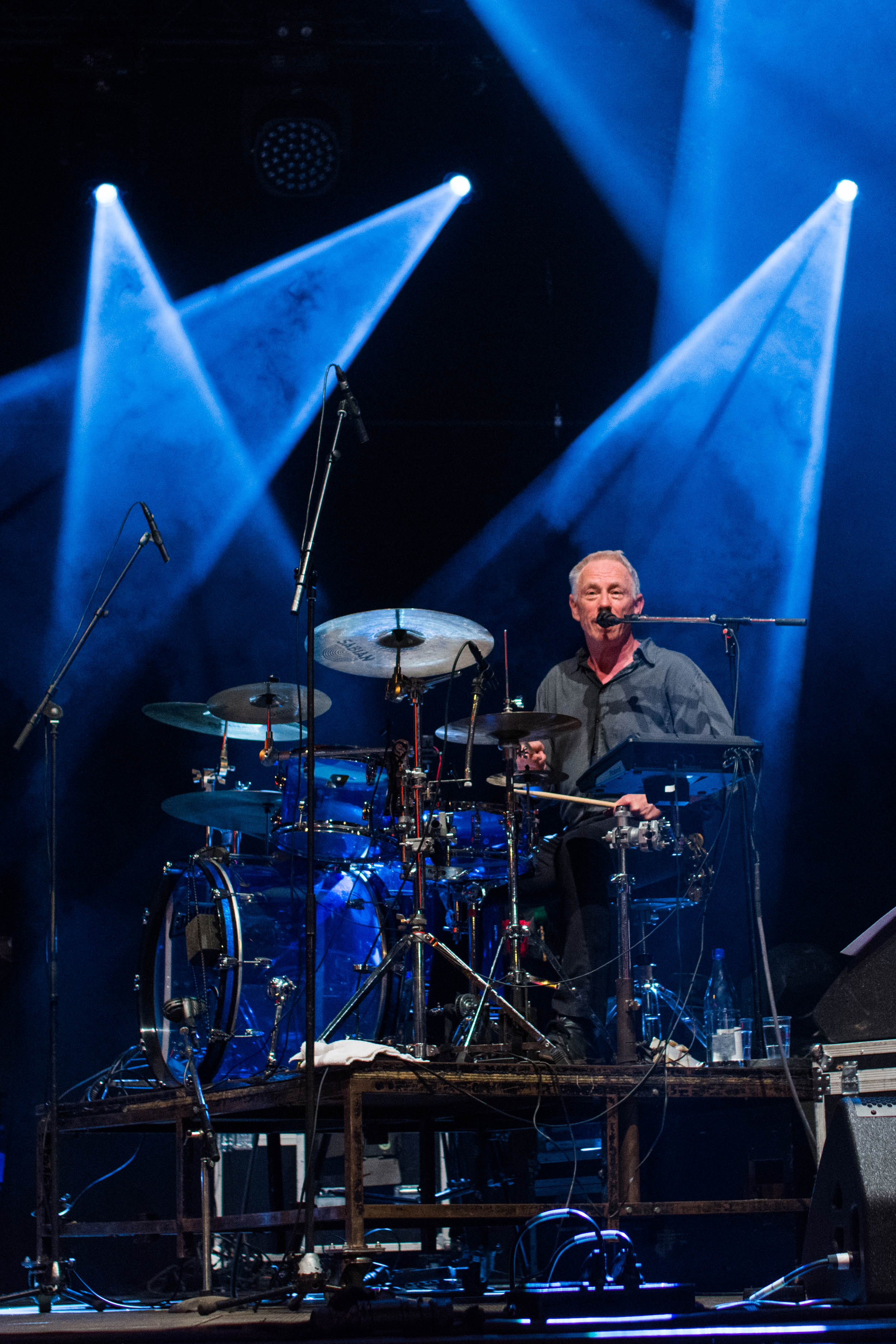 Rob Kloet at the Gentse Feesten on 16 July 2016